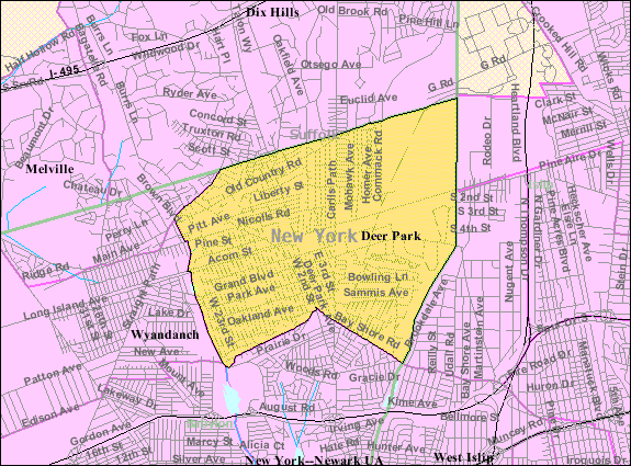 U.S. Census 2000 reference map for Deer Park, New York